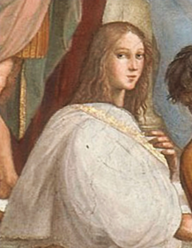 Detail from The School of Athens by Raffaello Sanzio. It may be a portrait of Francesco Maria della Rovere, or possibly the philosopher Pico della Mirandola. Although some modern hypotheses have identified the subject as Hypatia, the consensus of scholars [1] [2] is that the subject is male and that Hypatia was not depicted.